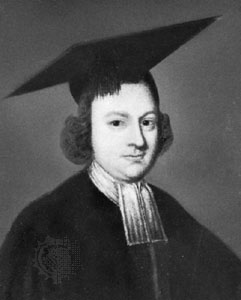 Christopher Smart, engraving of an oil painting by an unknown artist